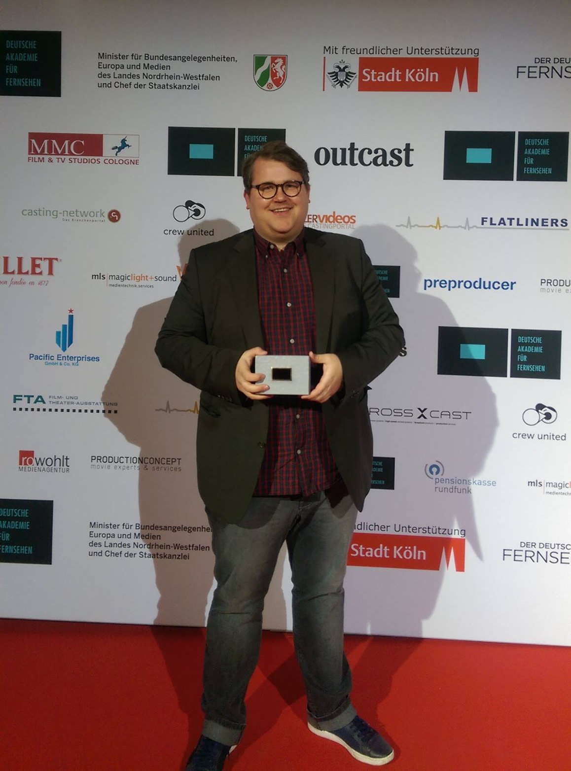 Björn Meyer bei der Preisverleihung der Deutschen Akademie für Fernsehen in Köln 2016.